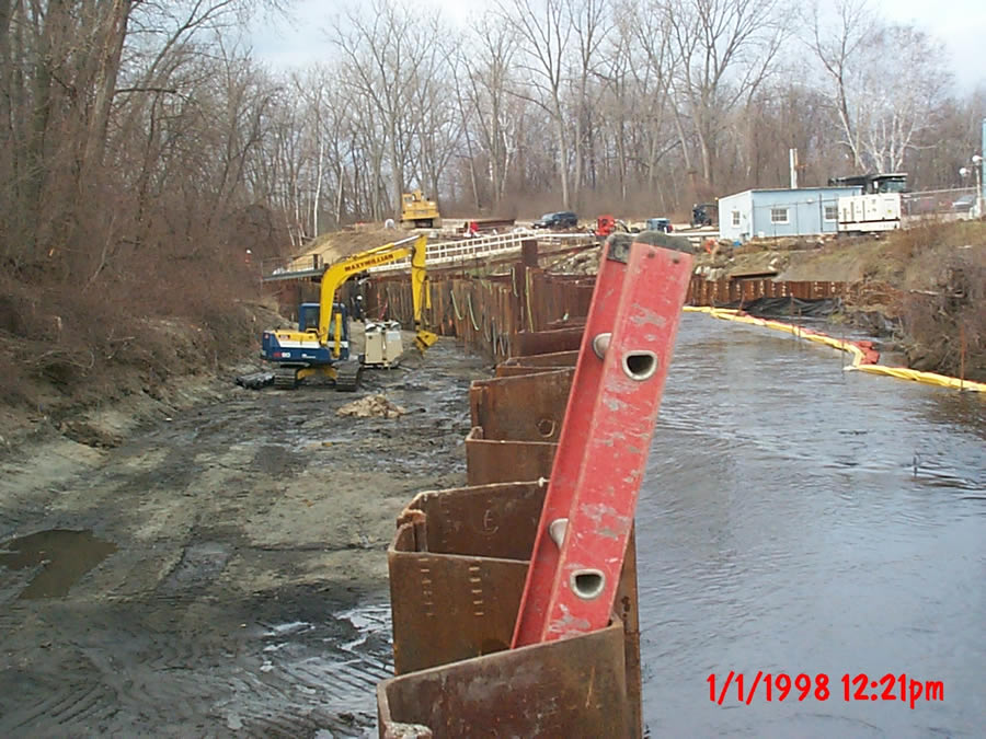 View of a General Electric Superfund cleanup site in Pittsfield. Massachusetts. Housatonic River, "1/2 Mile Removal" site, cleanup Cell B: Excavation of sediments, GE Plant on right; Hibbard Playground on left. GE's Pittsfield complex was extensively contaminated with PCBs and other chemicals between the 1930s and 1970s, and subsequently was designated as a "Superfund" cleanup site by US EPA in 1997. EPA and GE began a massive cleanup of this site on the Housatonic River in 1999. Cleanup in the 1/2 Mile Removal area was completed in 2002. (Note: The date displayed in lower right corner of photo is incorrect.)